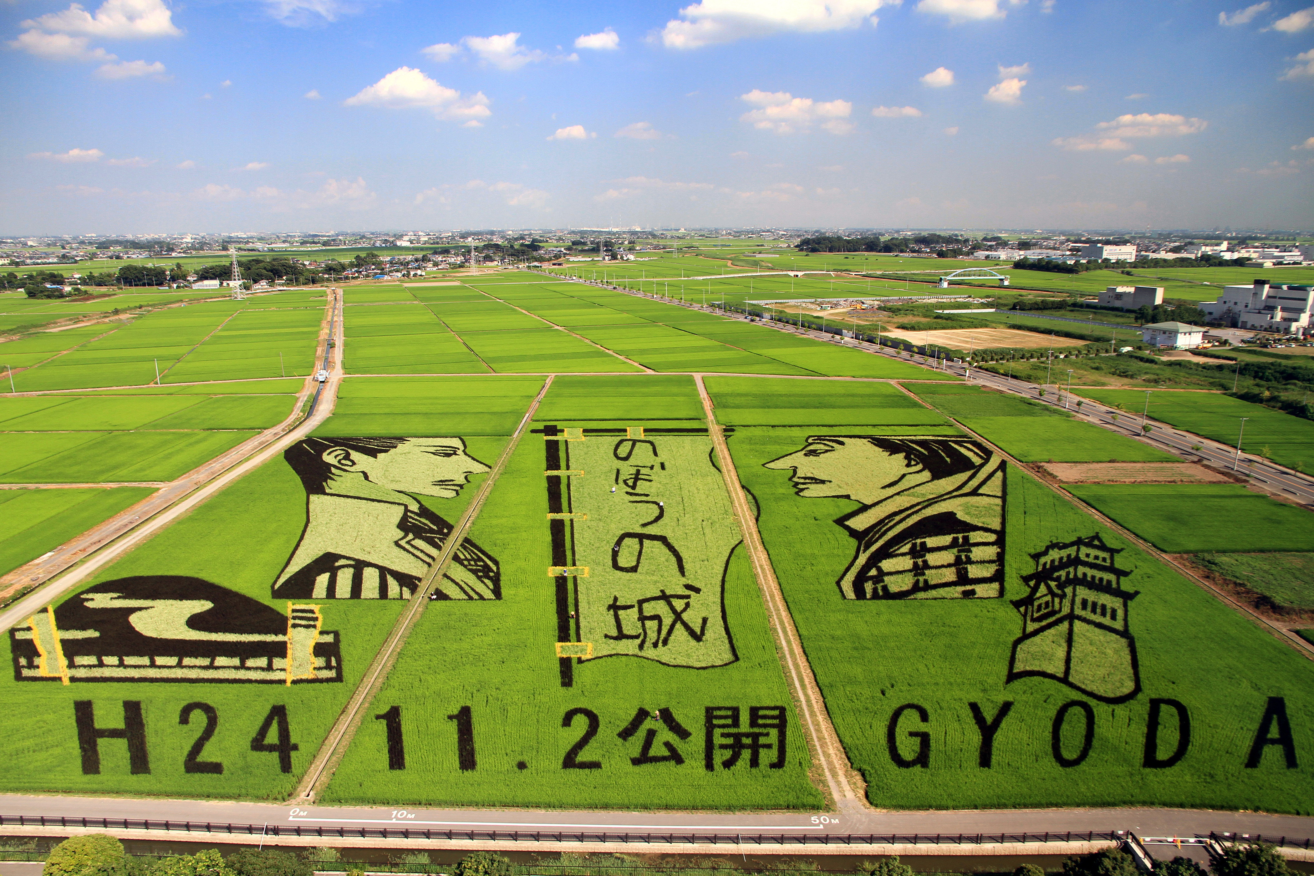 Tambo art in Gyōda (Saitama prefecture).